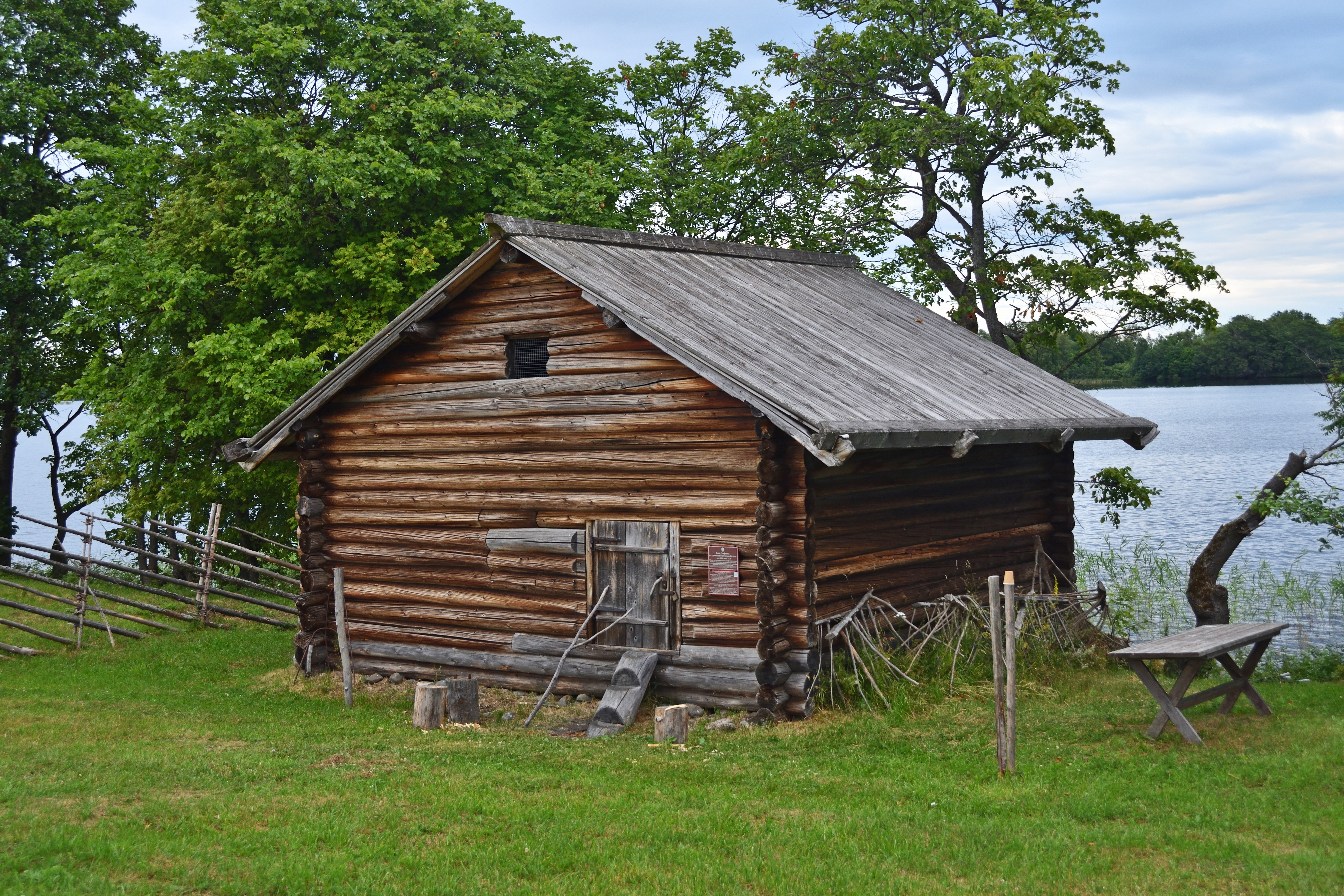 Stafeev's Treshing Barn from Beryaozovaya Selga village, Kizhi, Karelia, Russia